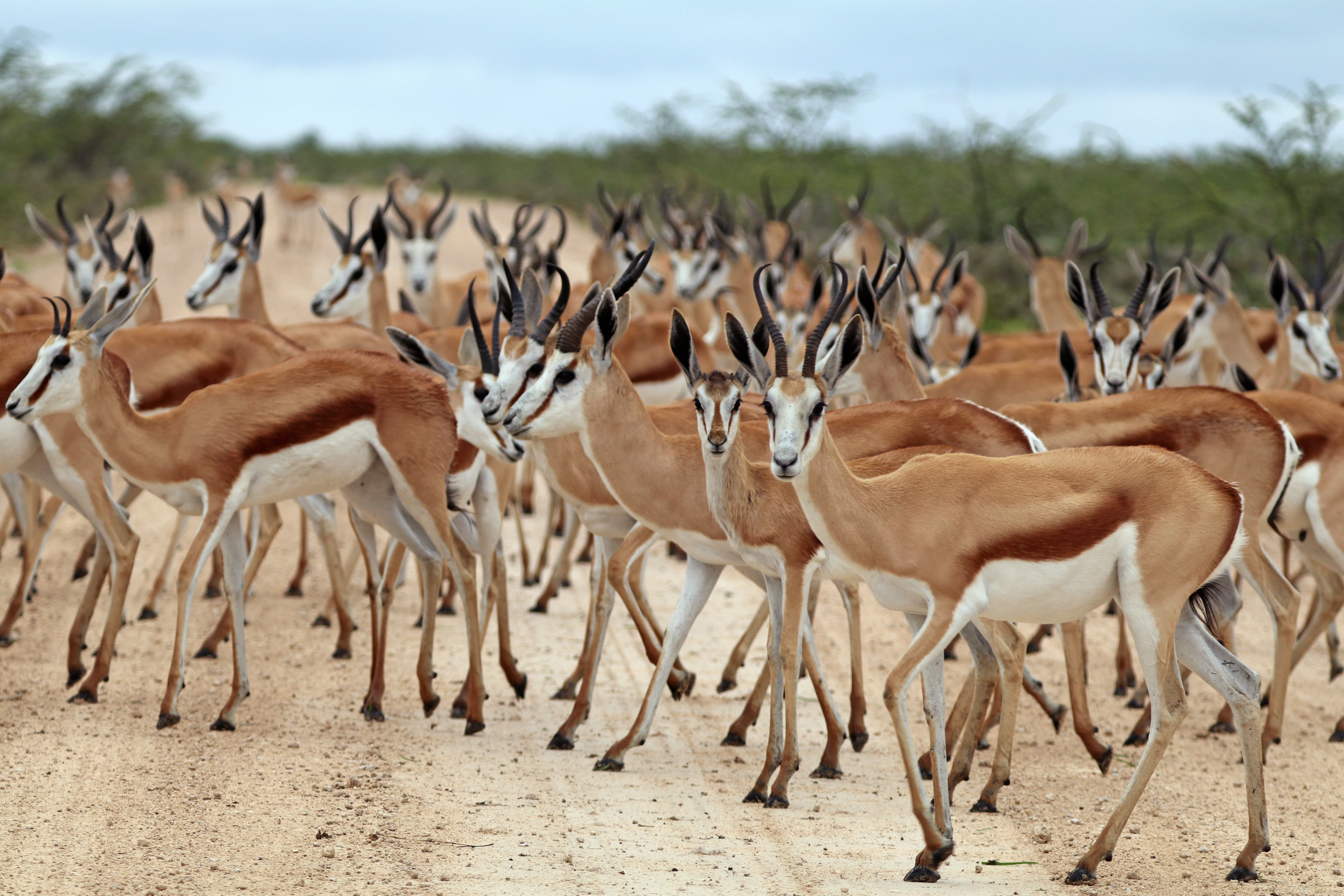 Springbok (Antidorcas marsupialis hofmeyri) in the road, Etosha National Park, Namibia